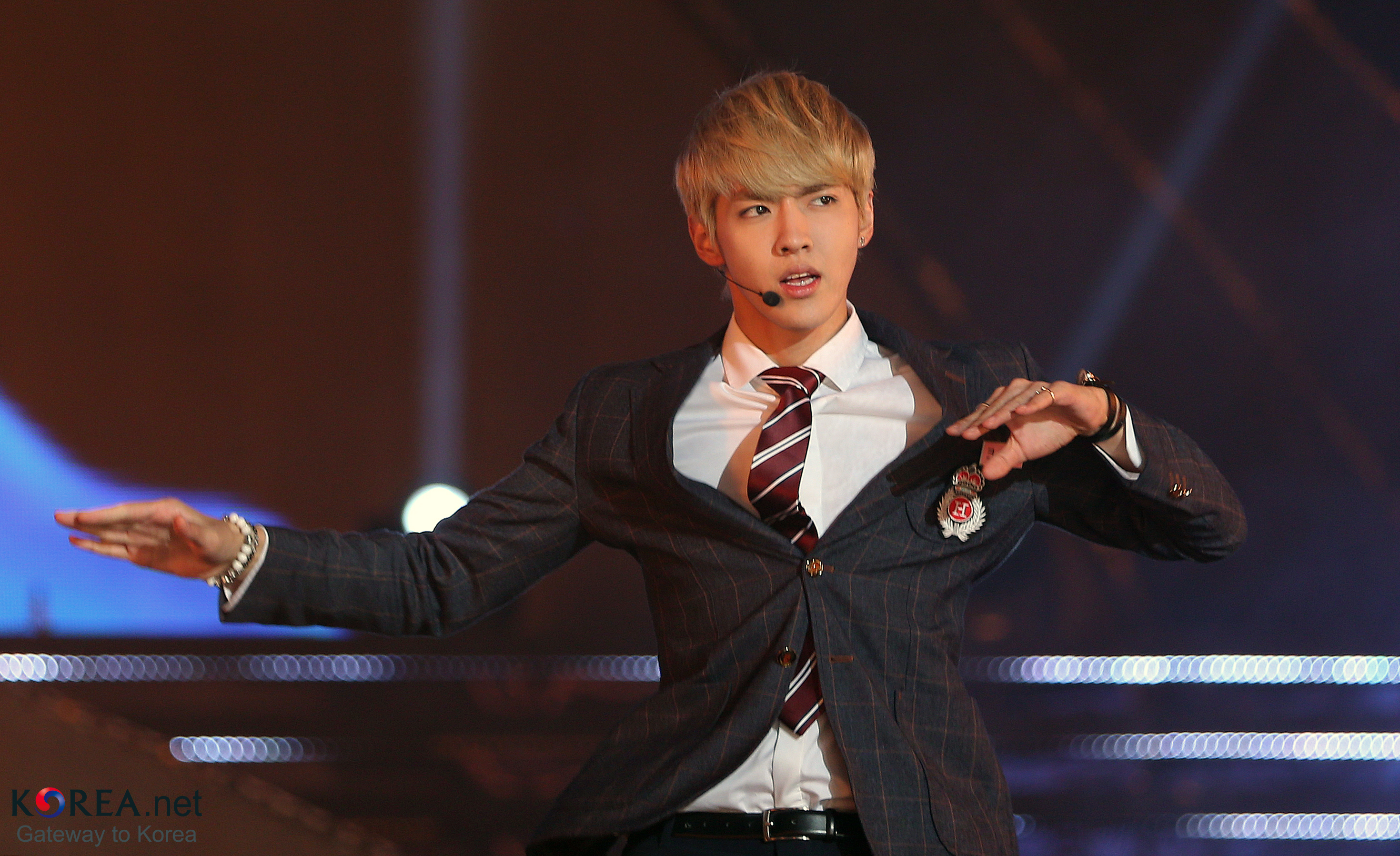 2013 K-POP World Festival in Changwon October 20, 2013 Changwon-si, Gyengsangnam-do Related Articles Cheong Wa Dae K-Pop World Festival unites global fans -English K-Pop World Festival unites global fans -中文 “2013 K-POP世界庆典” 用K-POP连结全世界 -Vietnamese Cả thế giới hội tụ tại “K-pop World Festival 2013” -日本語 「Kポップワールド・フェスティバル2013」、Kポップで世界が一つに -Deutsch „K-Pop World Festival” bringt internationale Fans zusammen -Francais Un festival mondial de la K-Pop 2013 de haute volée -Russian K-Pop World Festival объединяет фанатов со всего мира -Arabic المهرجان العالمي للبوب الكوري يوحد الجماهي Ministry of Culture, Sports and Tourism Korean Culture and Information Service ( Jeon Han 2013 제3회 K-POP 월드페스티벌 2013-10-20 경상남도, 창원시 문화체육관광부 해외문화홍보원 코리아넷 전한